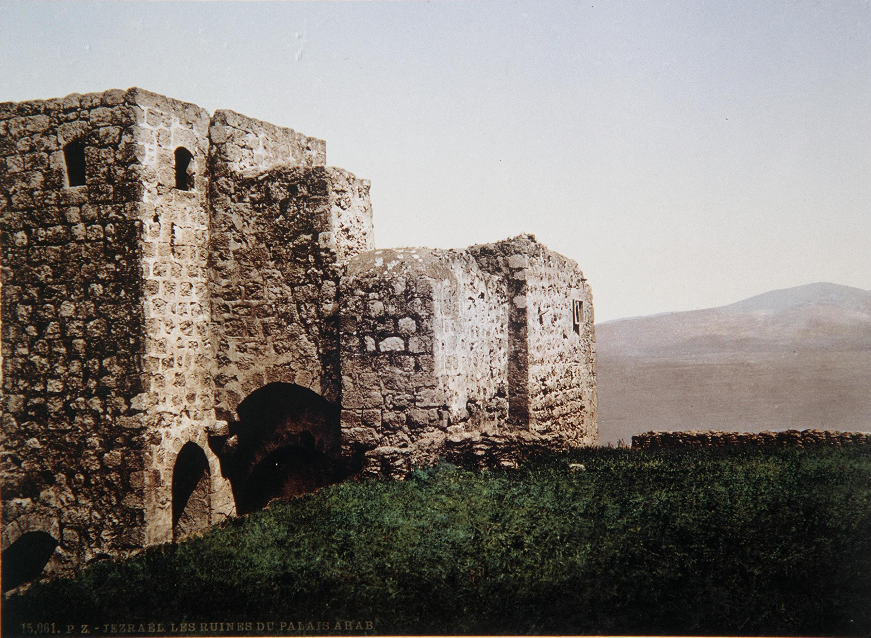 REMNANTS OF AN ARAB PALACE IN GALILEE. COLOR PHOTO TAKEN IN THE LATE 19TH CENTURY BY FRENCH PHOTOGRAPHER, BONFILS. צילום צבע מסוף המאה ה19 של הצלם הצרפתי בונפיס אשר תעד במצלמתו את נופי ארץ ישראל ותושביה. בצילום, עתיקות של ארמון ערבי בעמק יזרעאל.